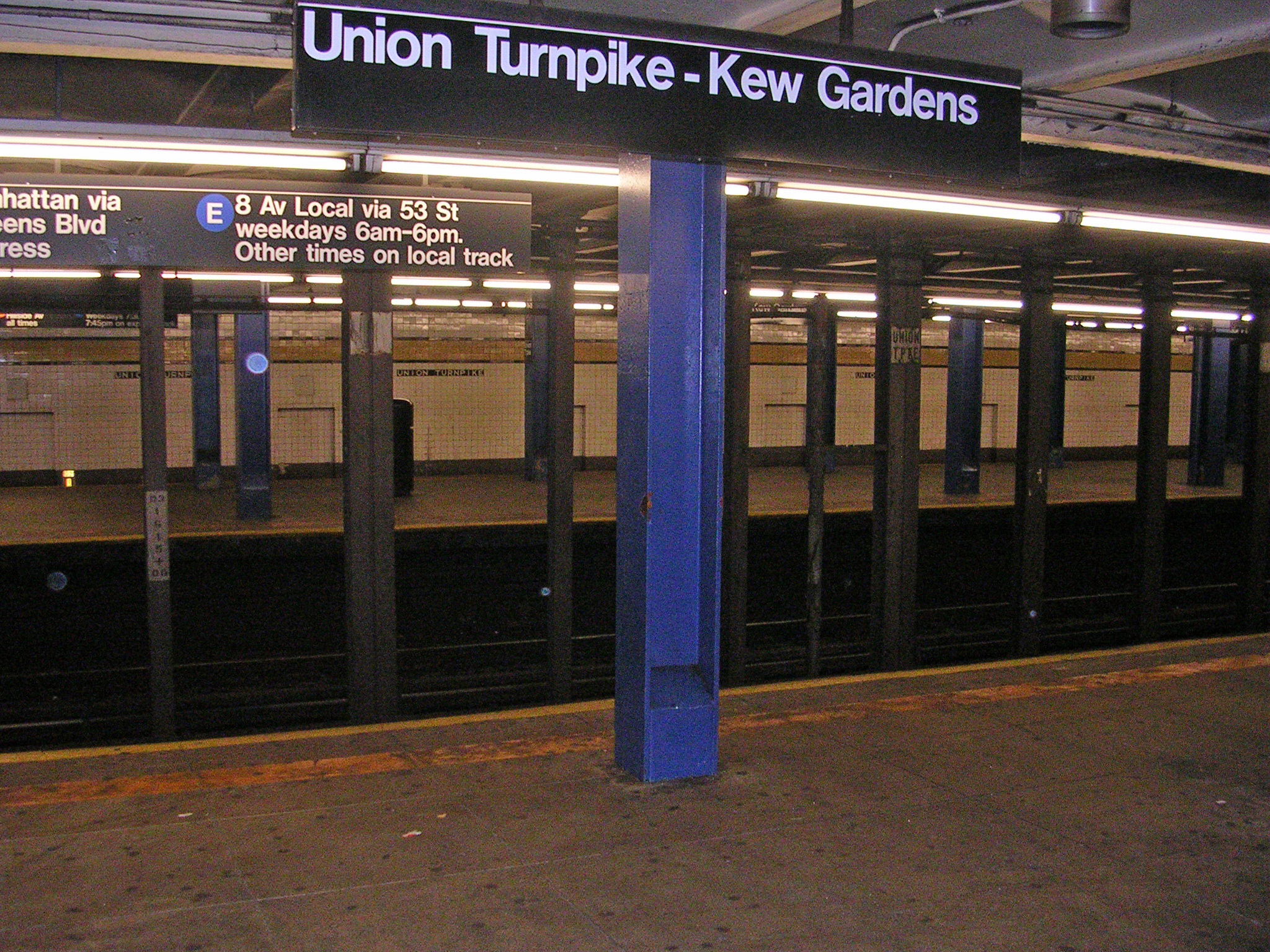 Union Turnpike-Kew Gardens Station by David Shankbone, January 15, 2007.